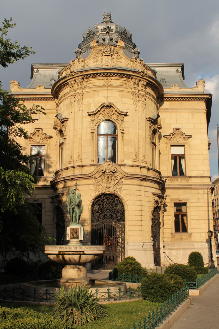 Wenckheim Palace, Budapest